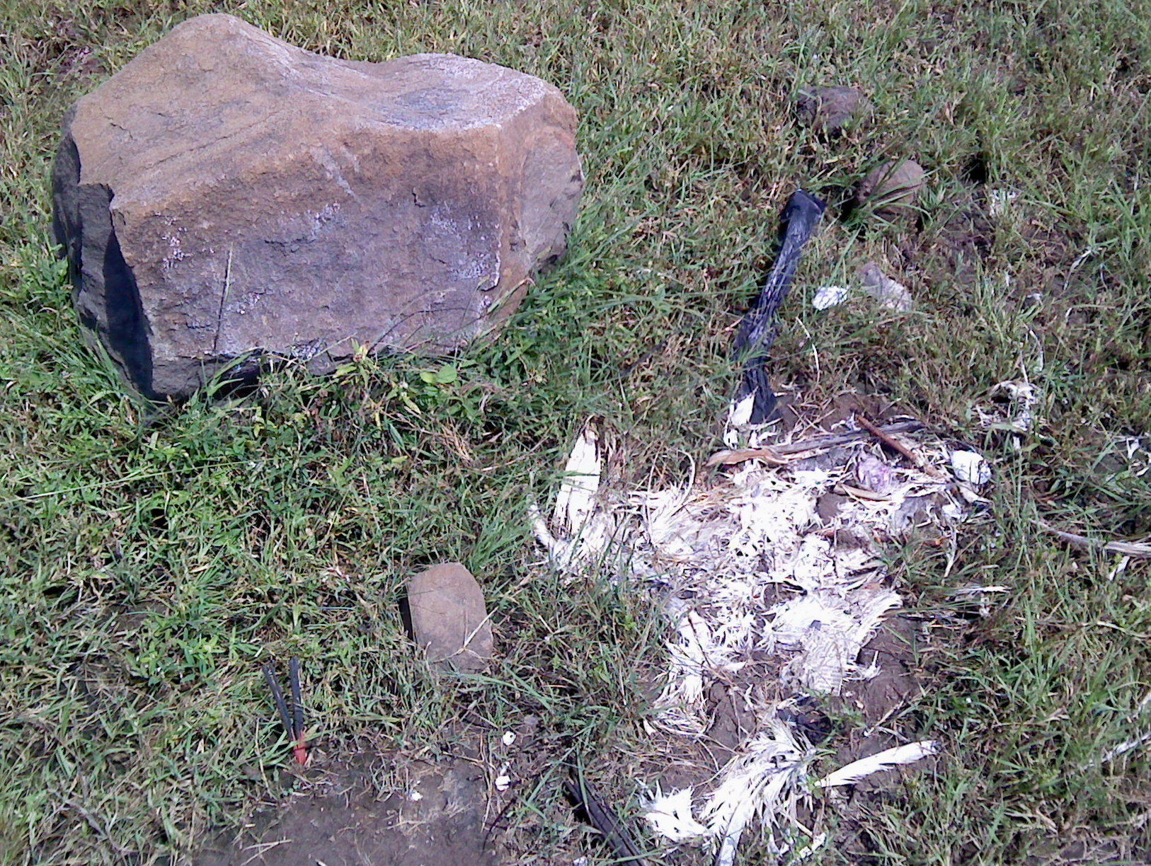 I asked a few local boys about the stones here; they said they knew nothing about it. The stones and the immediate area found relatively untouched by the locals except grazing cattle seen at some distance. But near one circle, these chicken feathers and some worship things such as incense sticks etc. were found, perhaps a sign of black magic by some locals.